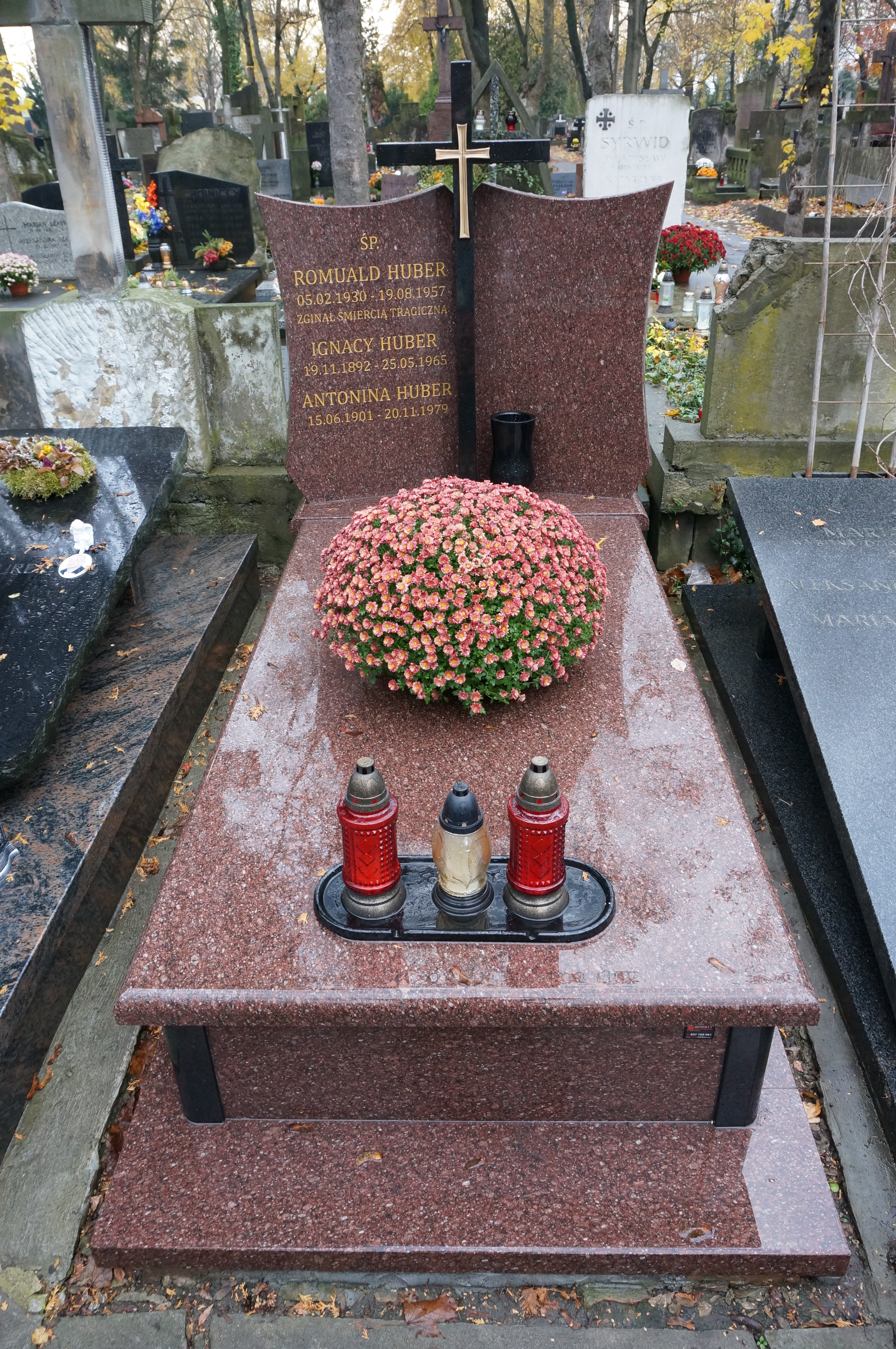 The grave of Ignacy Huber at the Powązki Cemetery (section 153, row 3, grave 2)